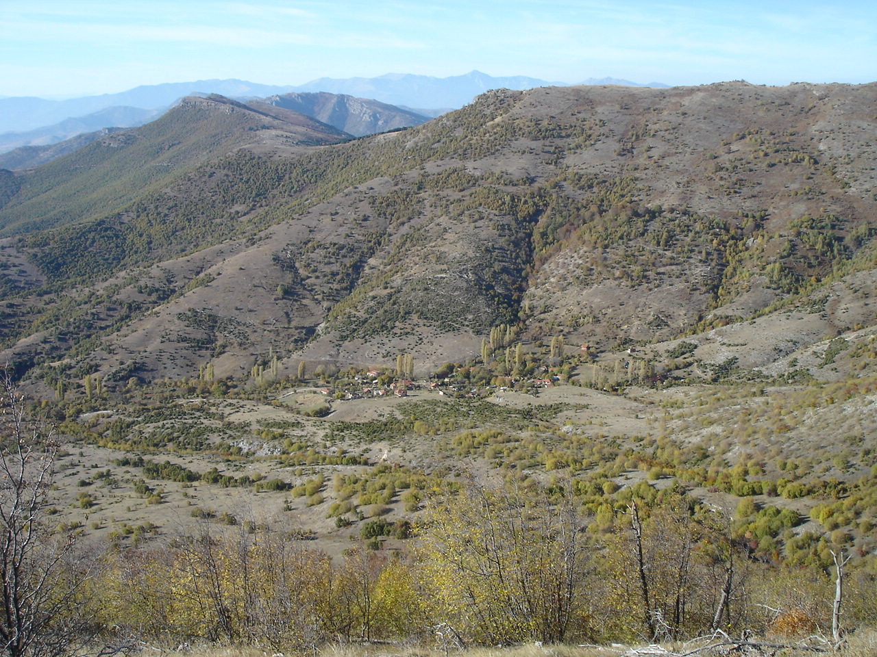 village of Krstec, near Prilep, Macedonia